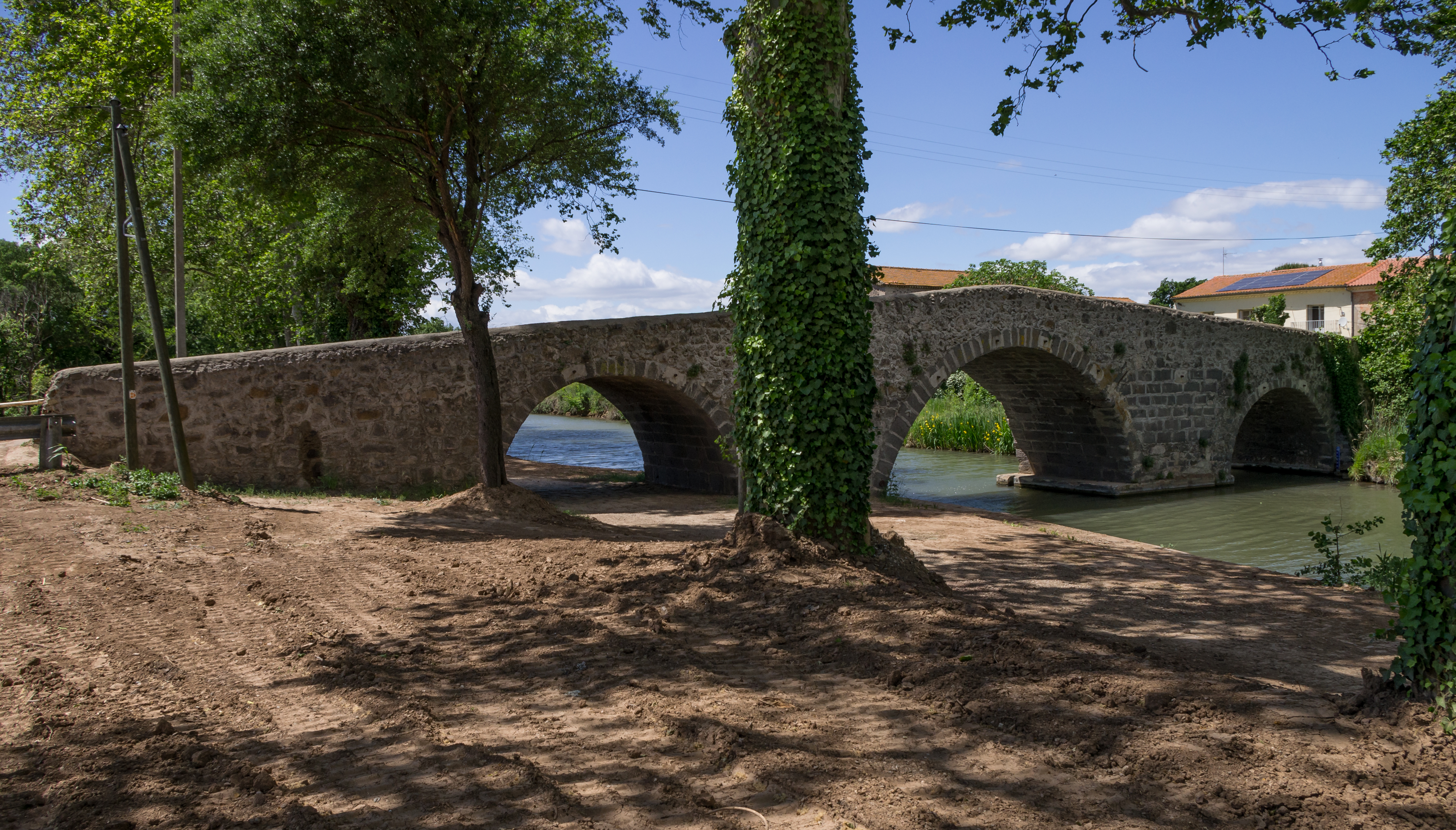 Saint-Joseph Bridge over the Canal du Midi (UNESCO World Heritage Site). Work of three archs dated of end of the XVIIth century. Agde, Hérault, France. .